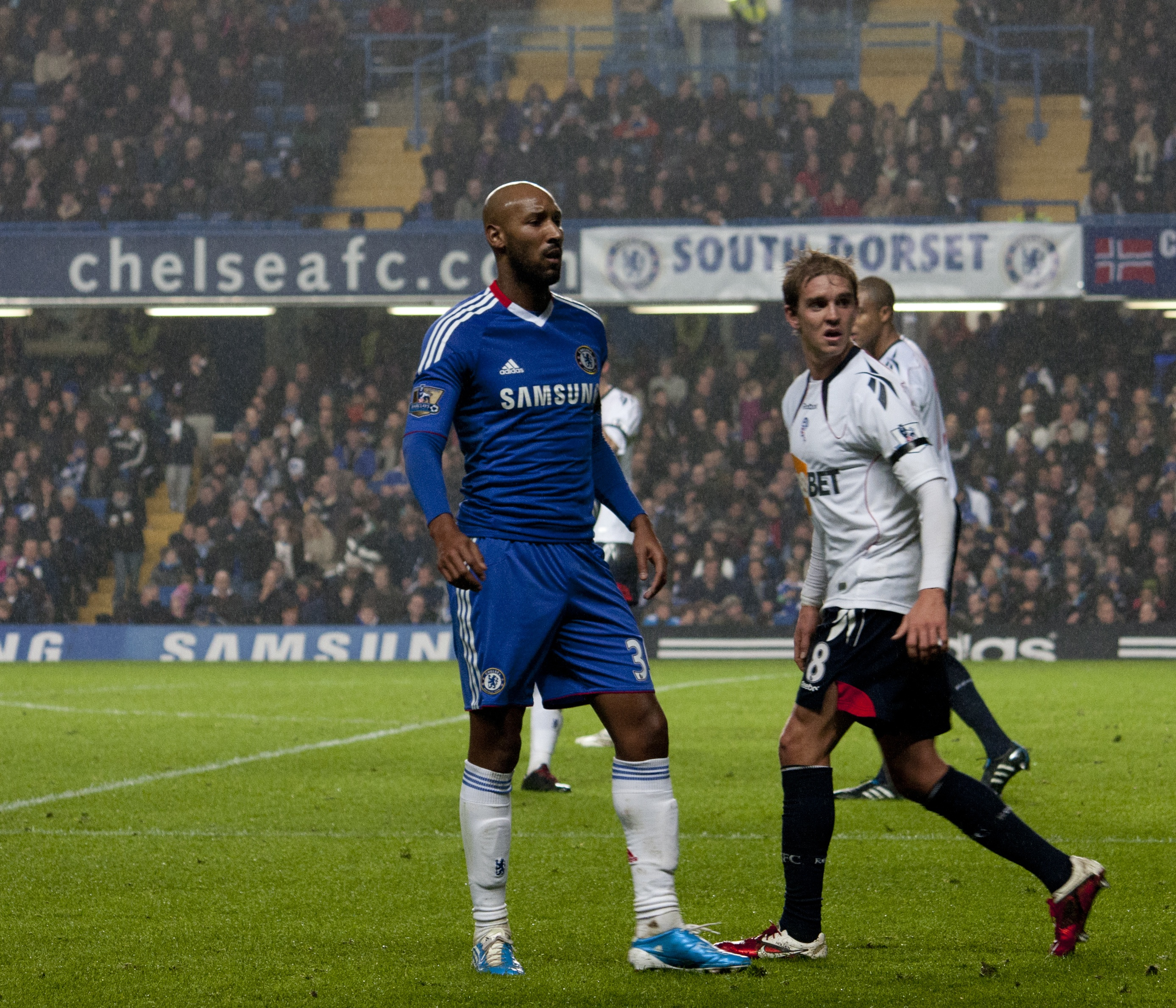 Nicolas Anelka & Stuart Holden